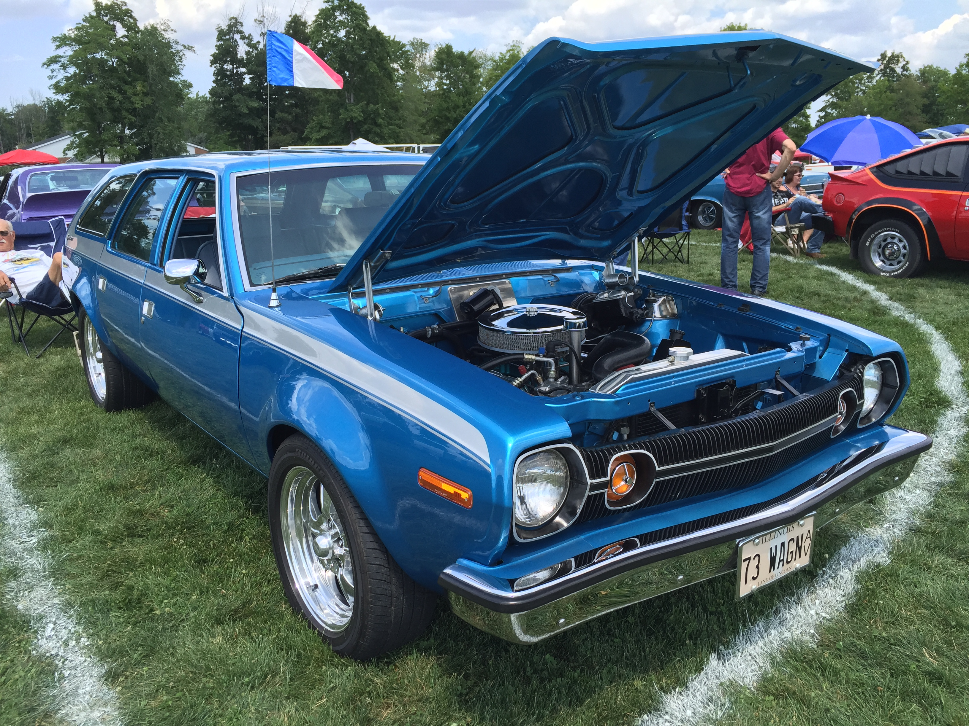 1973 AMC Hornet Sportabout a compact-sized car built by American Motors Corporation (AMC). This station wagon is finished in blue and has been customized. It also features aftermarket wheels. Picture taken during the car show on Saturday at the American Motors Owners Association (AMO) annual convention that was held July 2015 near Cleveland, Ohio.